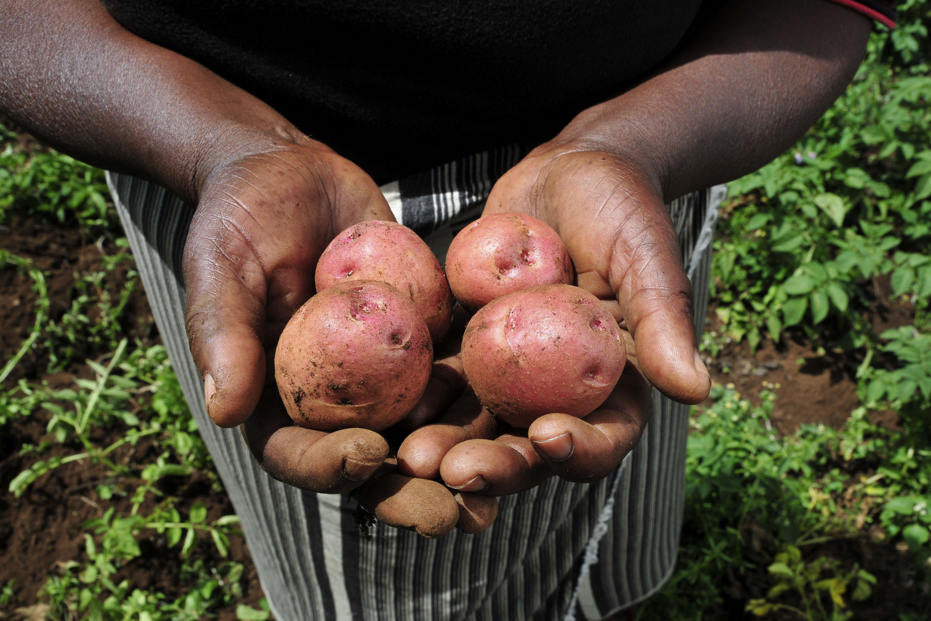 Potatoes grown in the Kibirichia area of Mount Kenya. Photo taken as part of a project examining the impact of climate change on agriculture.